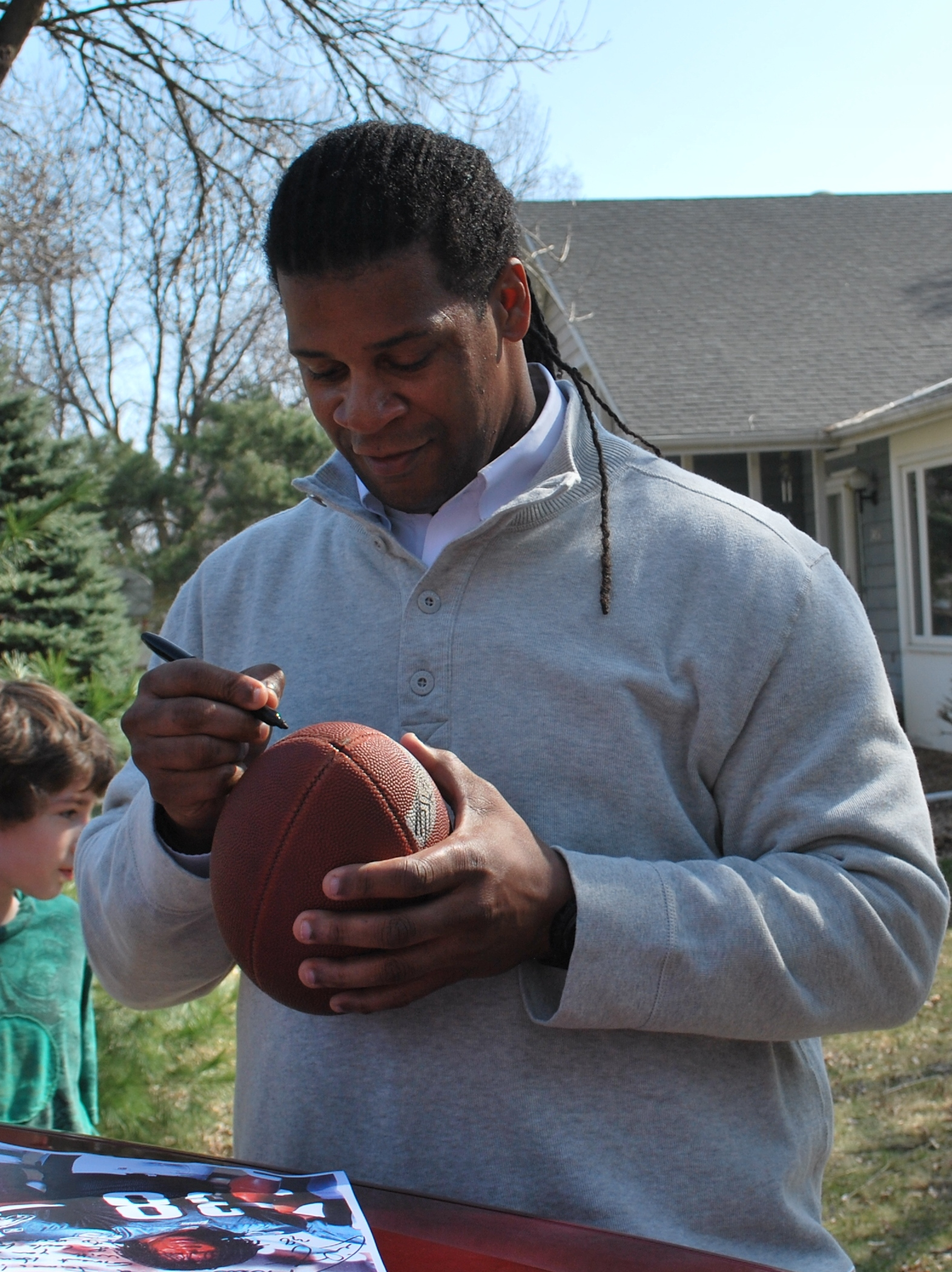 Cecil Martin continues to inspire youth to athletics, integrity, kindness and achievement.